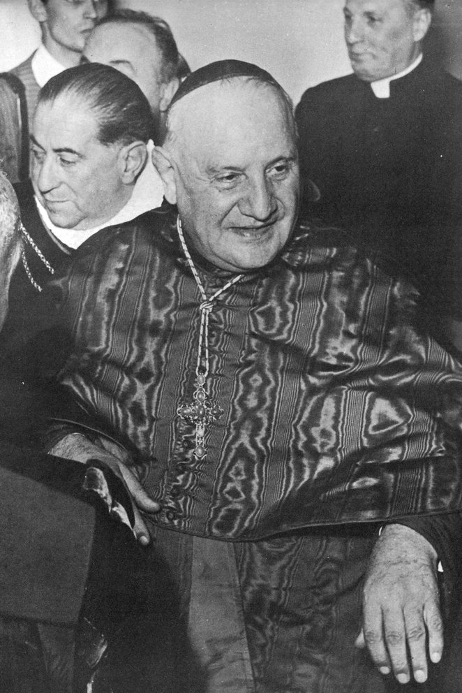 Cardinal Angelo Giuseppe Roncalli, Patriarch of Venezia (Patriarchatus Venetiarum). 1953-1958.